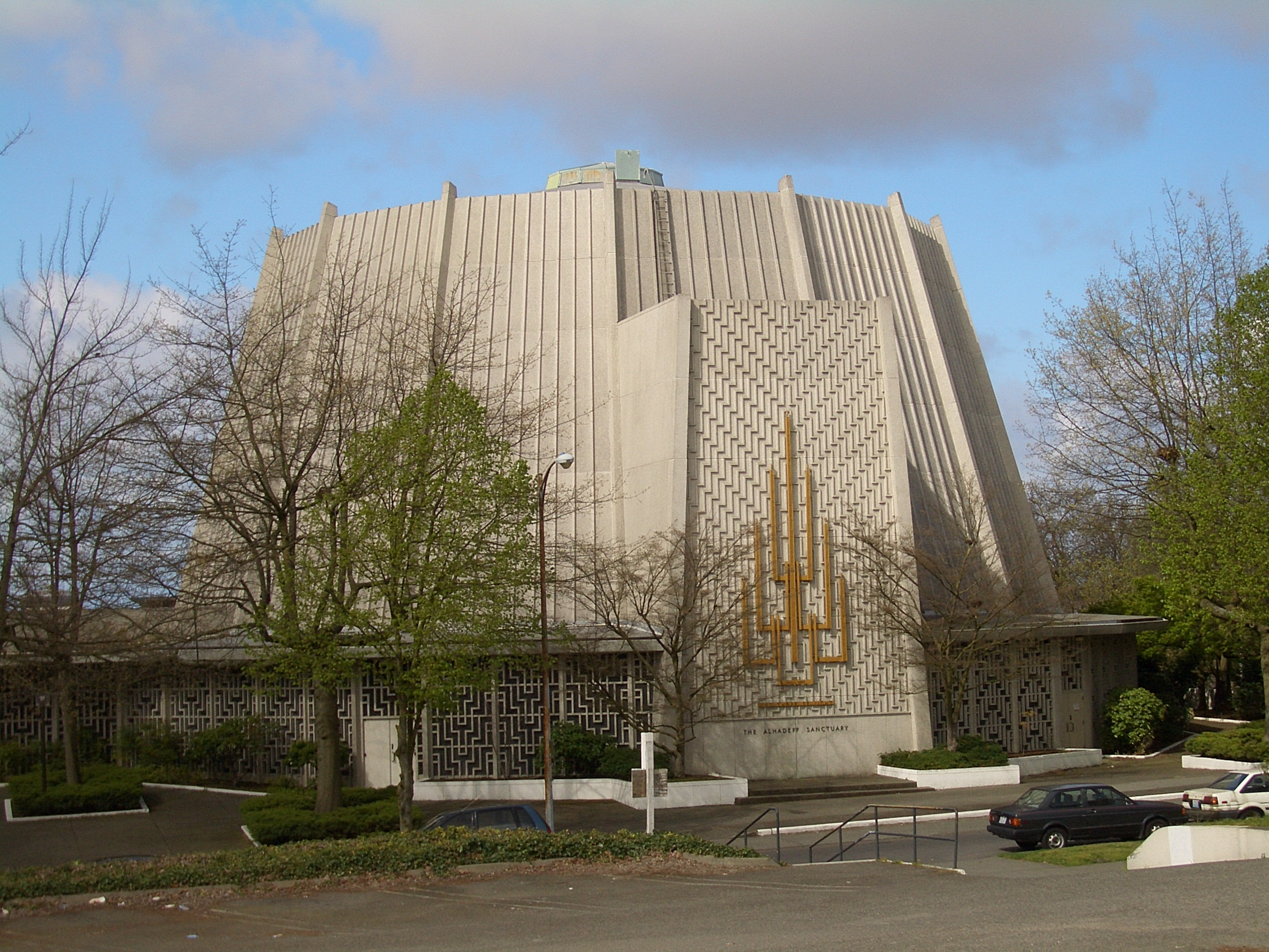 Alhadeff Sanctuary of Temple de Hirsch Sinai, a synagogue in the First Hill/ Central District area of Seattle, just south of Capitol Hill. Temple de Hirsch is on the National Register of Historic Places, presumably for the original 1907 building (demolished 1992). This 1960 building by B. Marcus Priteca, John Dettie, and John Peck.